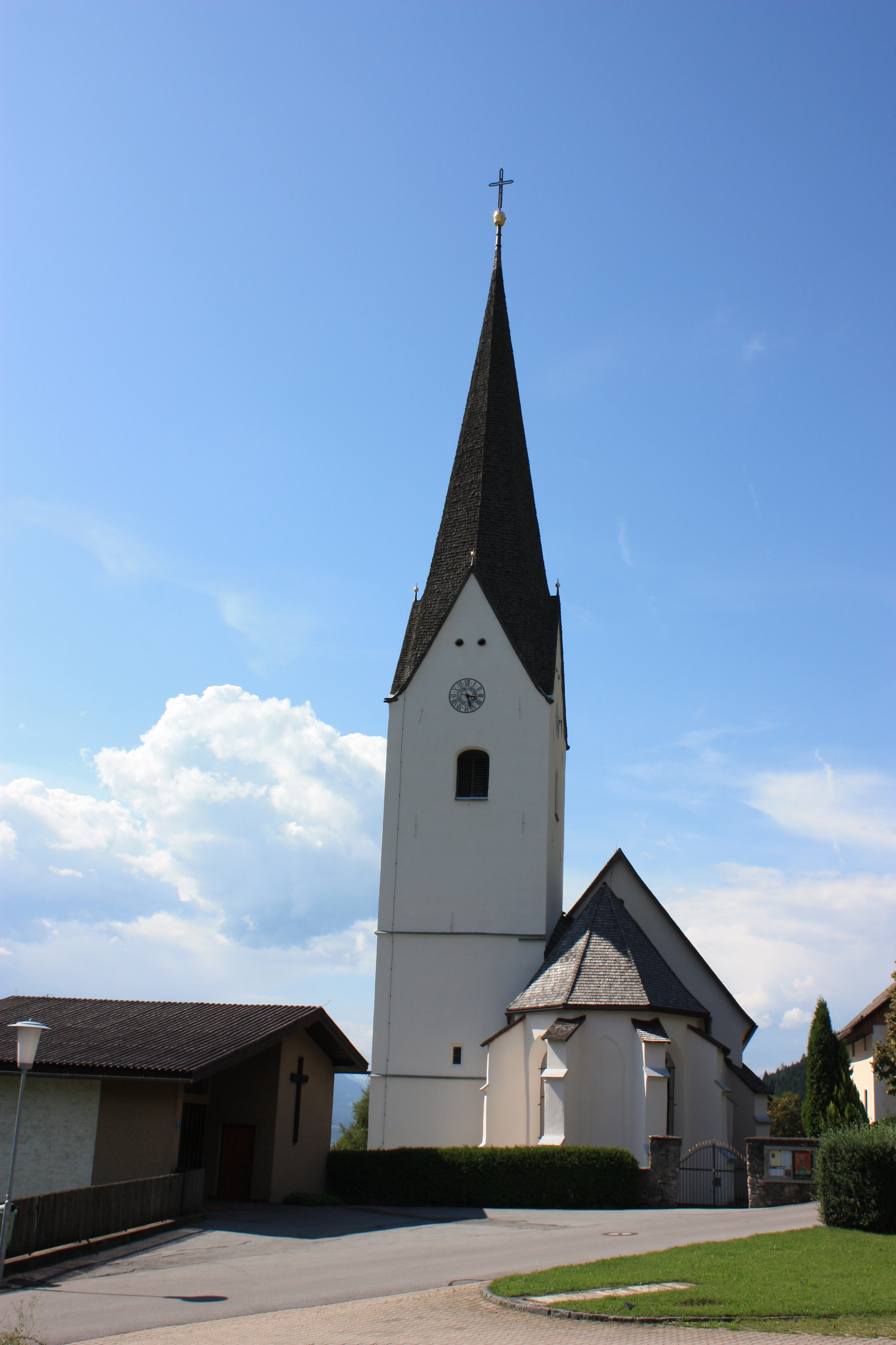 Parish church Saint Leonhard Locality: Weißenstein Community: Weißenstein